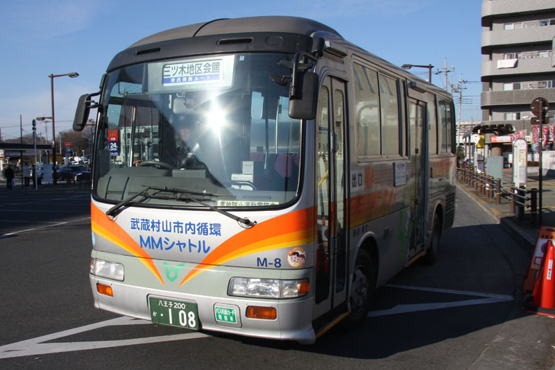 Tachikawa Bus's route bus for MM-Shuttle (Car No.M-8 / Hino Liesse KK-RX4JFEA / Hino body) at Kamikitadai Station, Higashi-Yamato, Tokyo, Japan